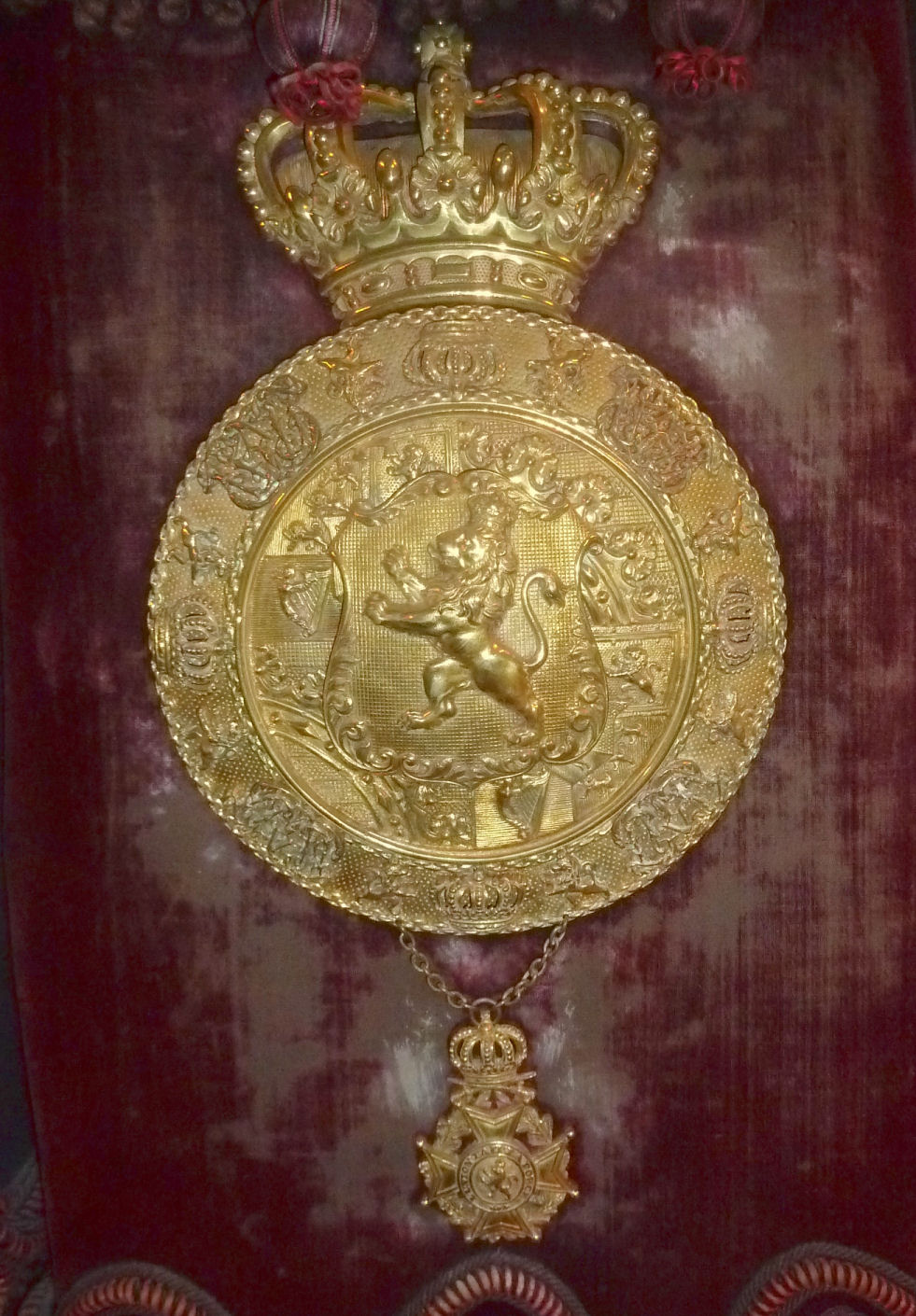 Royal carriage (Royal collection, Belgium)